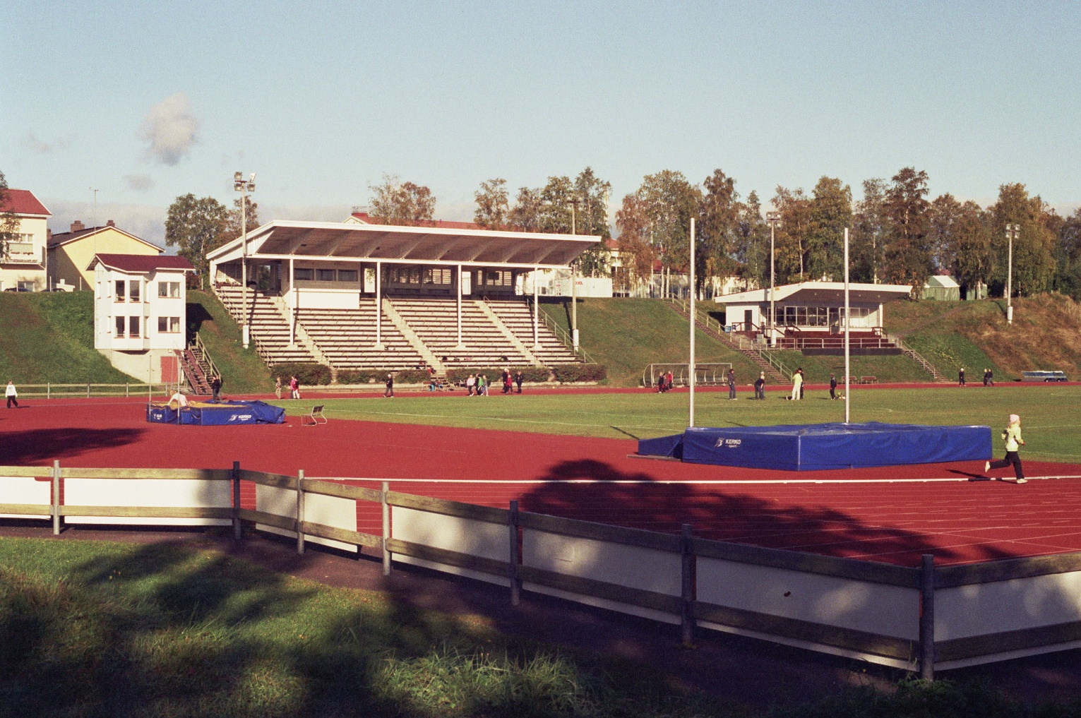 Pohja Stadium in Tornio, Finland.